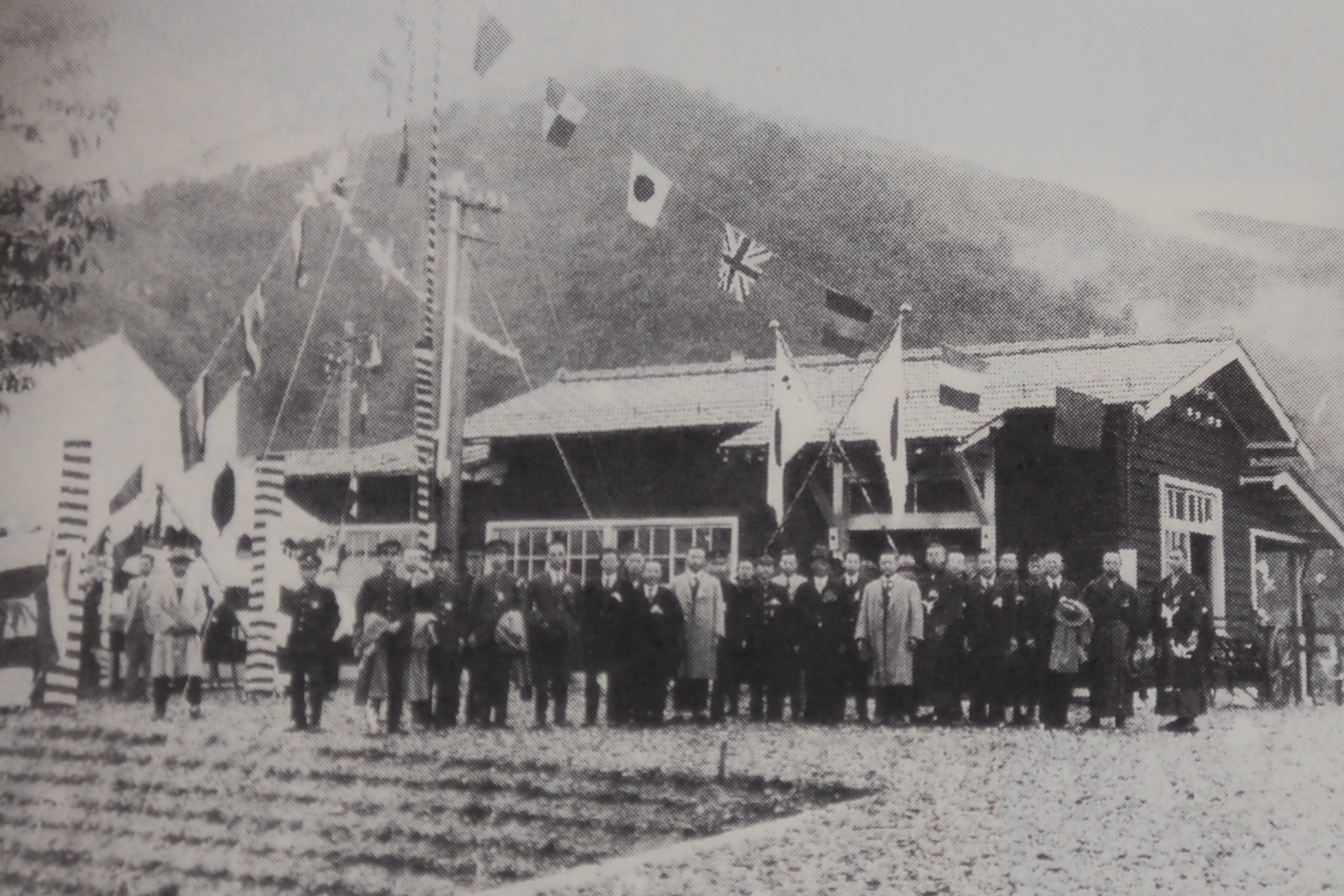 Opening ceremony, Kamishiro Station.